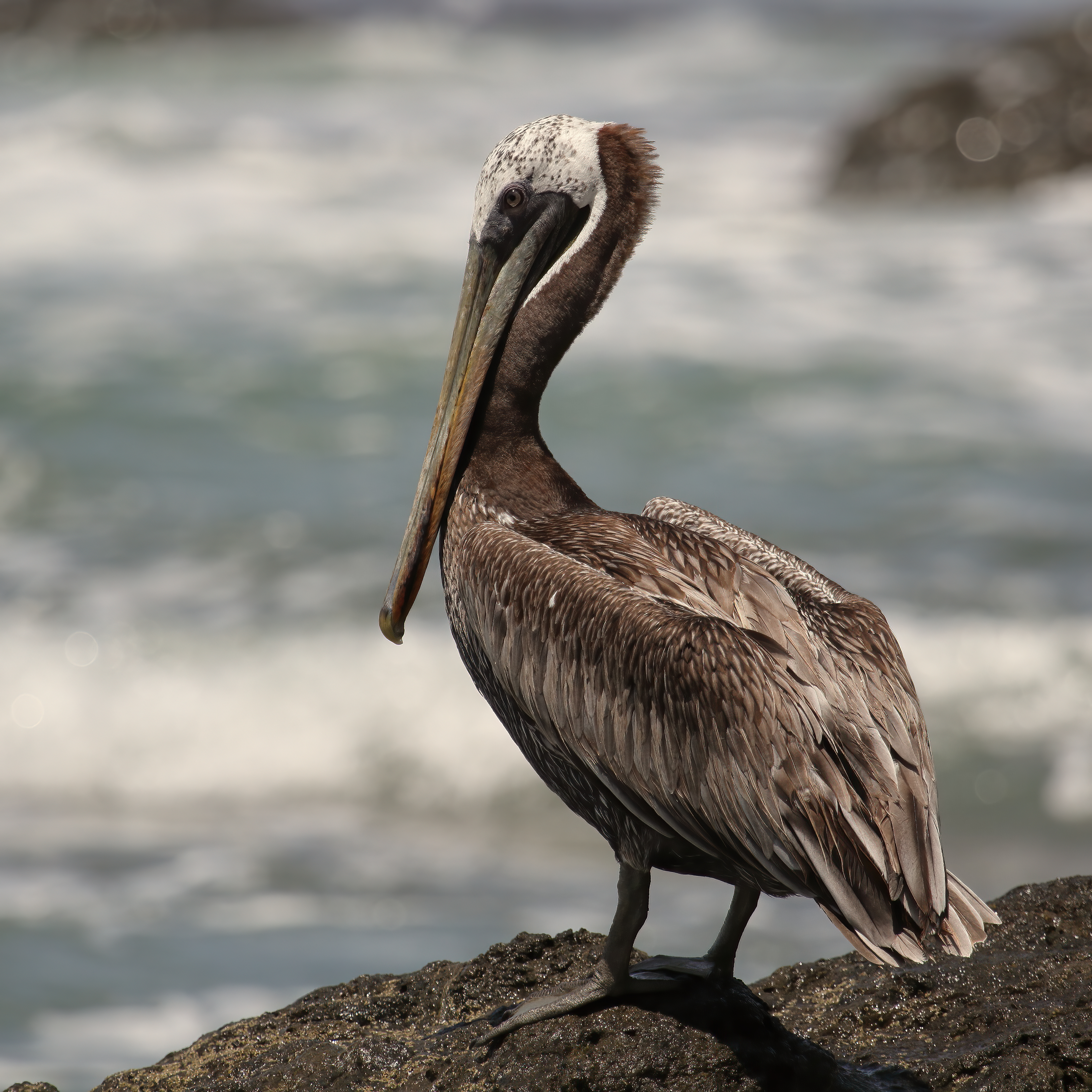 Brown pelican, Montezuma, Costa Rica